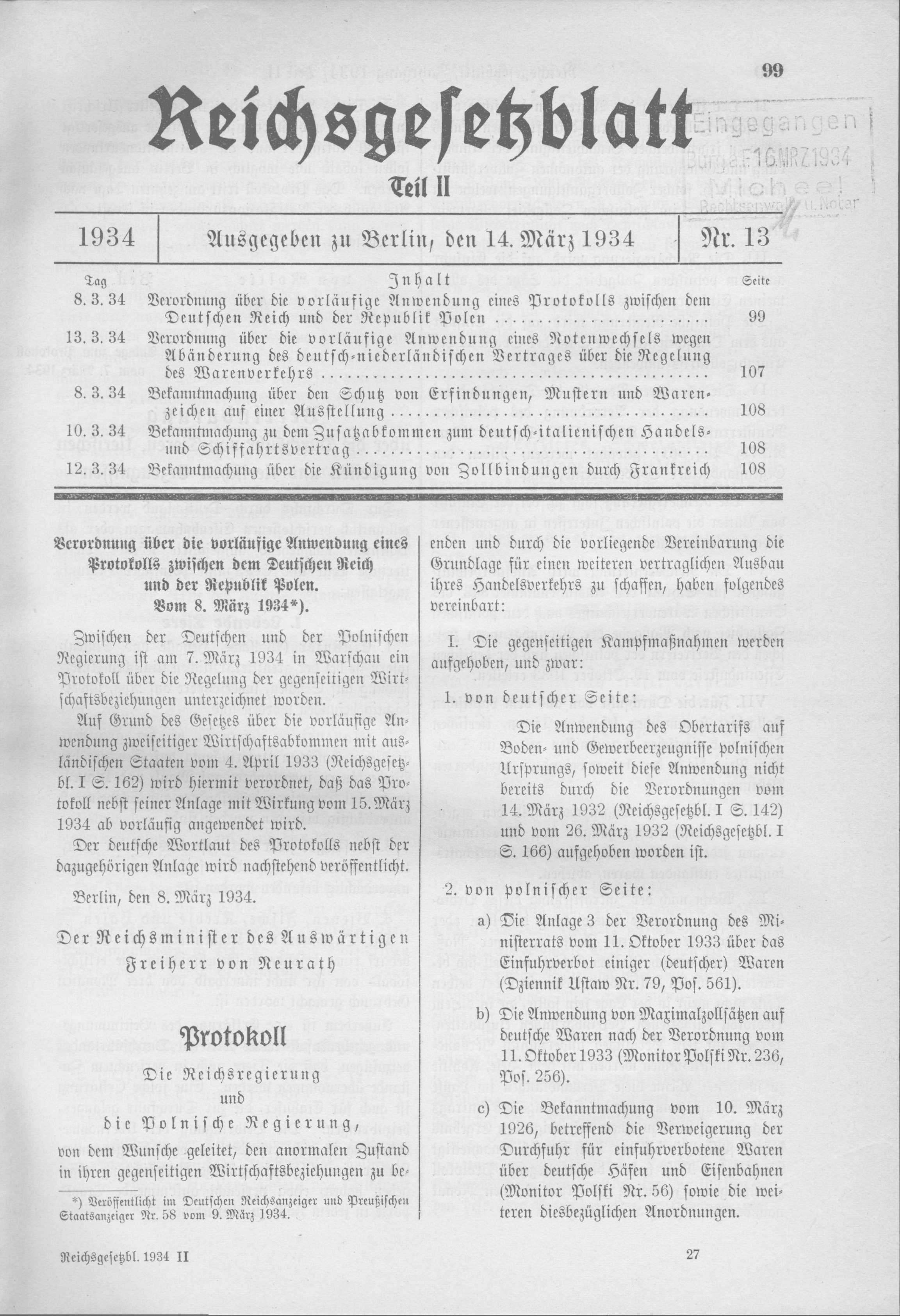 Scan from the Imperial Law Gazette of Germany, 1934, part 2